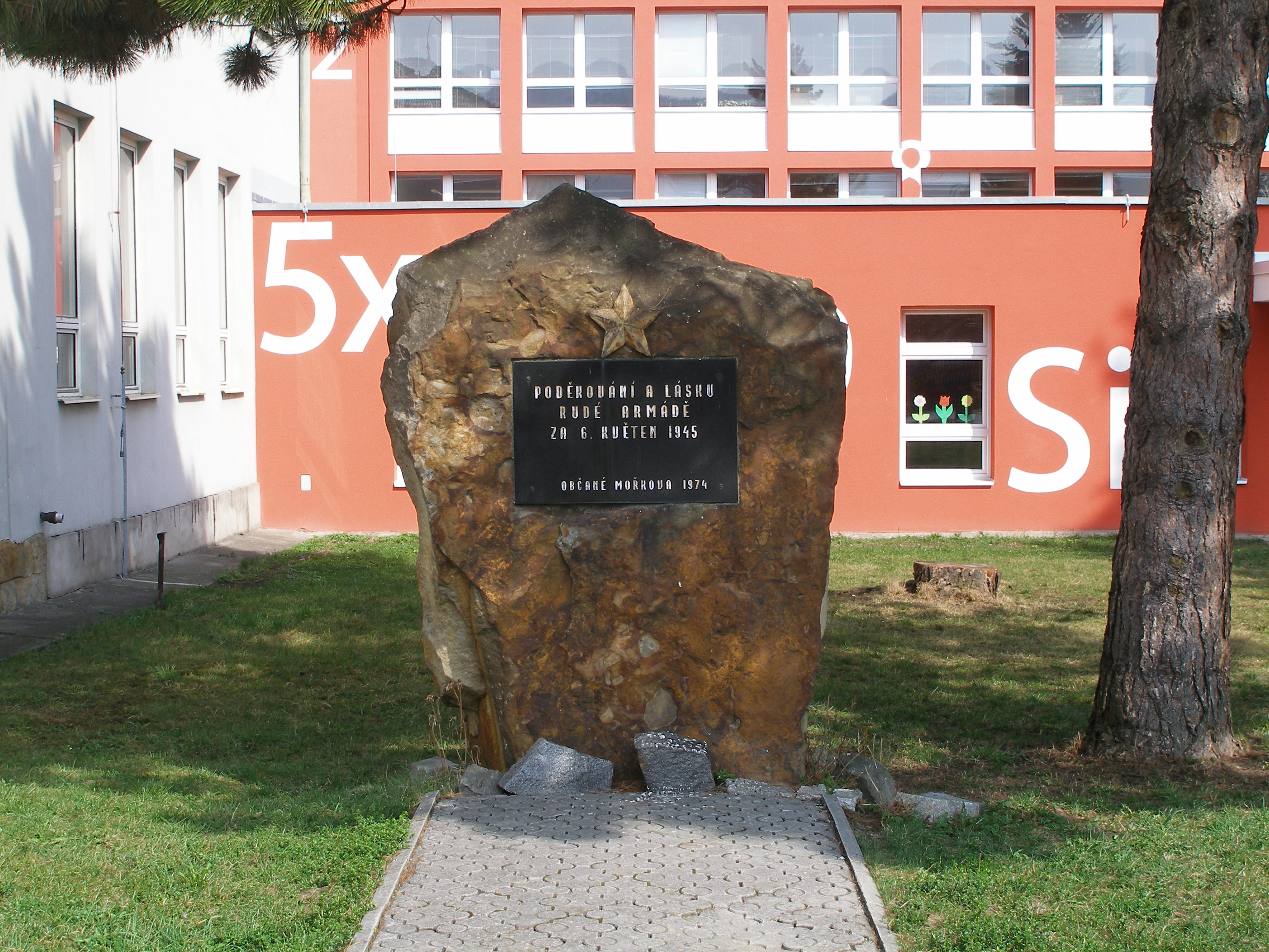 Memorials of Red Army (USSR). GPS: 49°32'15.550"N, 18°3'29.866"E